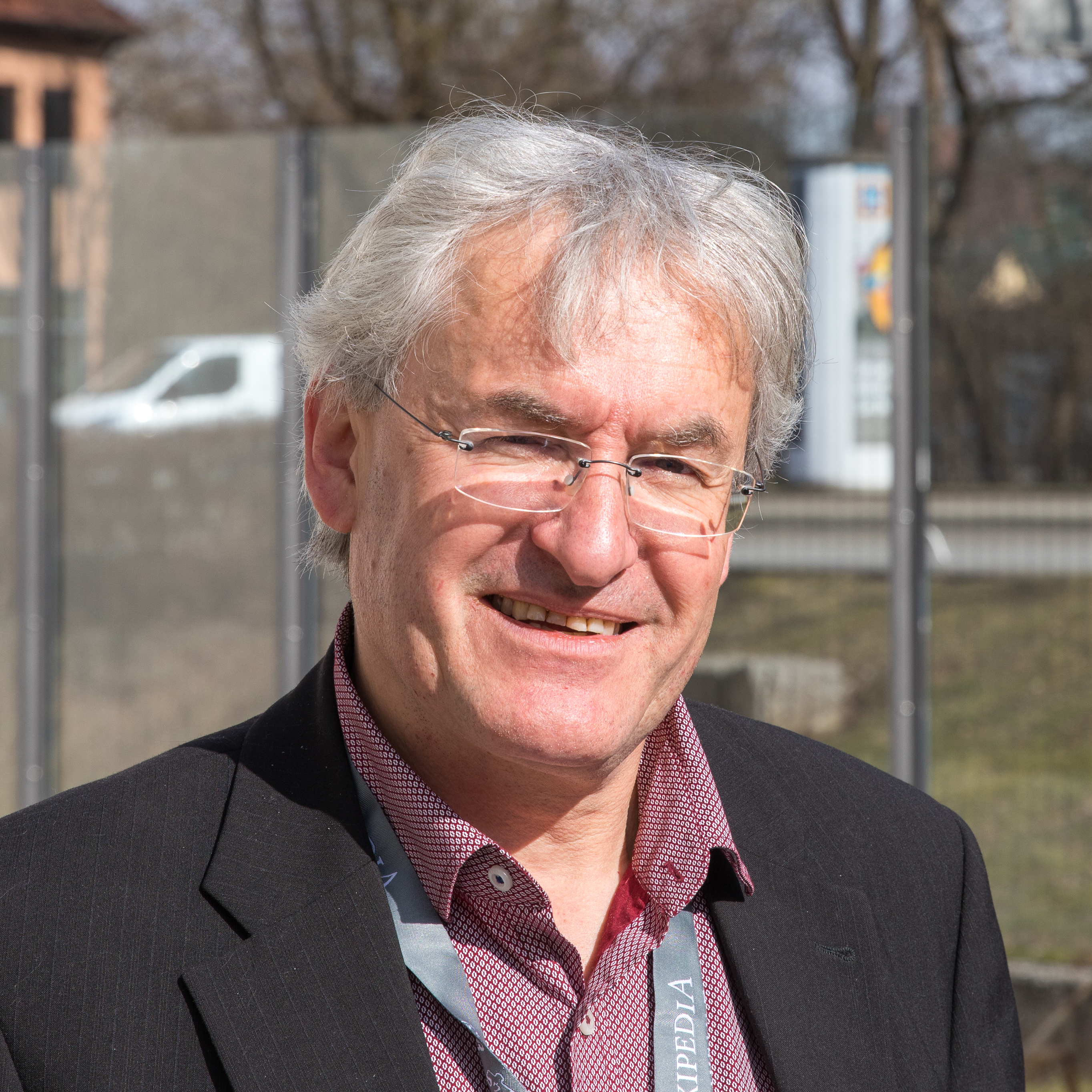 Andreas Gut, director of the Alamannenmuseum Ellwangen, Germany